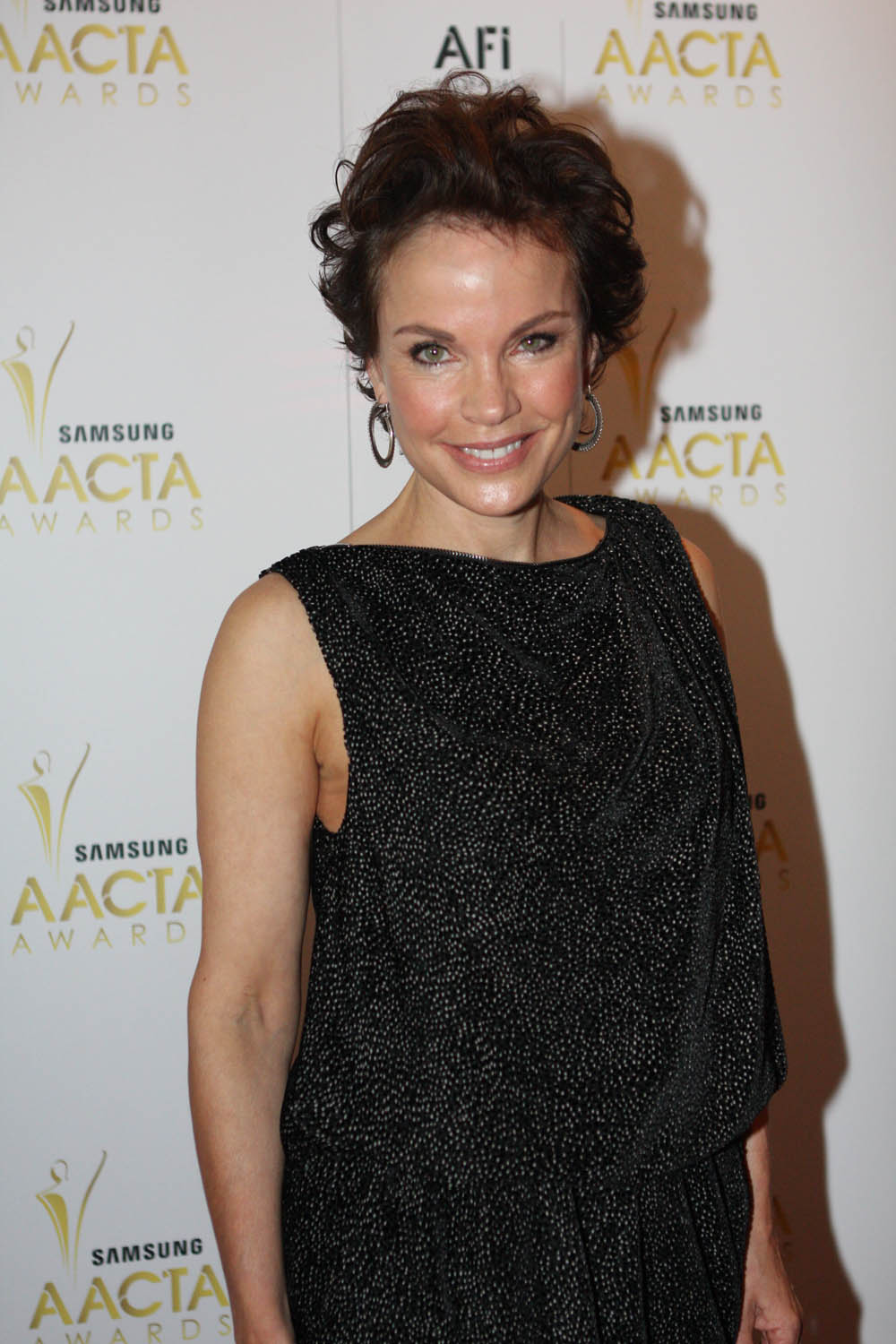 Australian actress Sigrid Thornton at the AACTA Awards from Sydney, Australia, January 2012